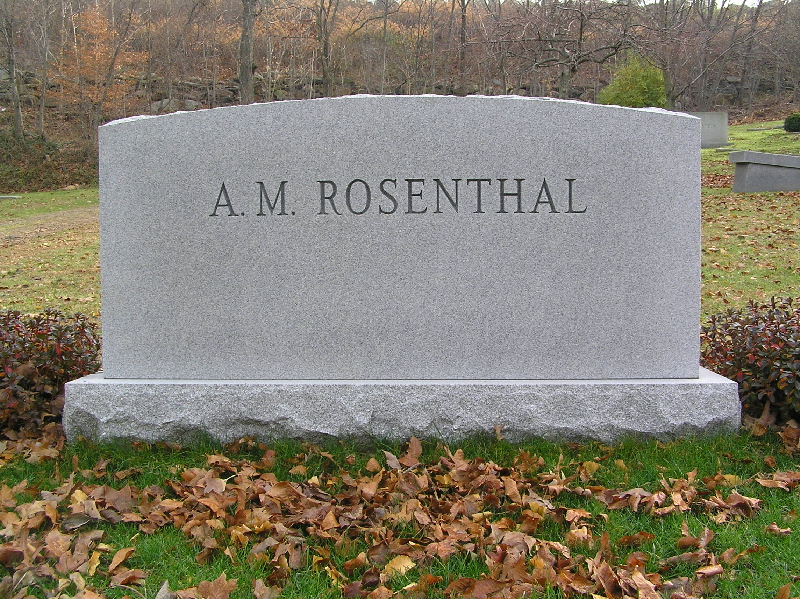 I took this photograph of A.M. Rosenthal's grave in Westchester Hills Cemetery on November 27, 2006. — GNU Free Documentation License